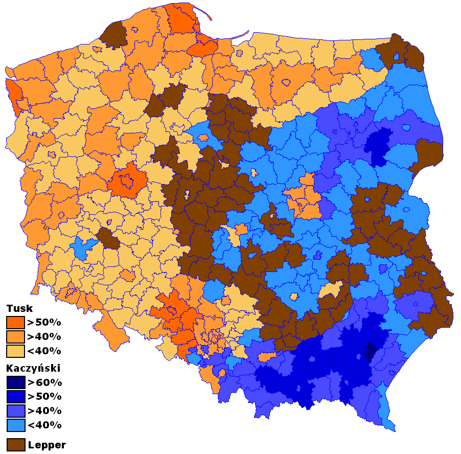 Polish presidential election, 2005 - results of the I round (9 October 2005) by counties